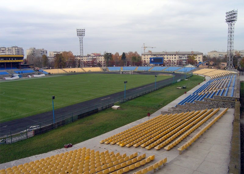 Avangard Stadium, Lutsk